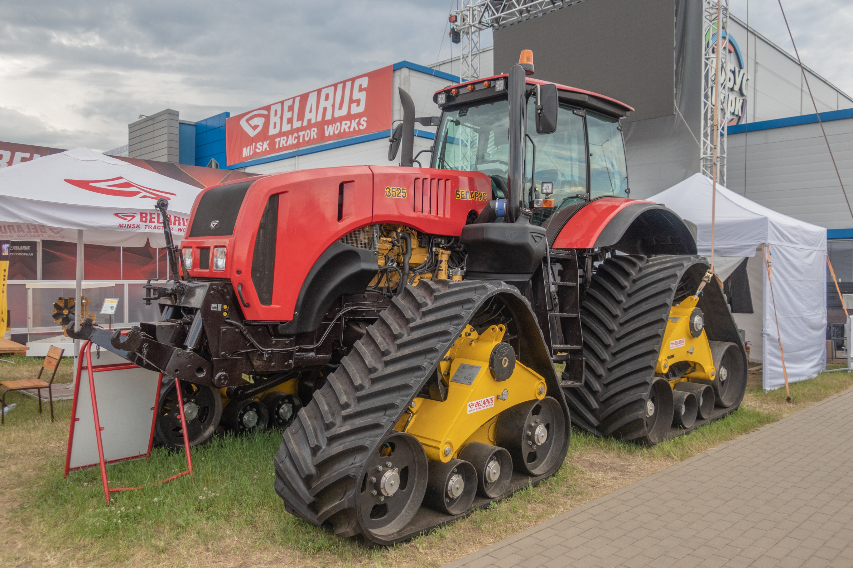 Belarus MTZ-3525 tractor. Photo taken at Belagro-2019 exhibition (Minsk district, Belarus)